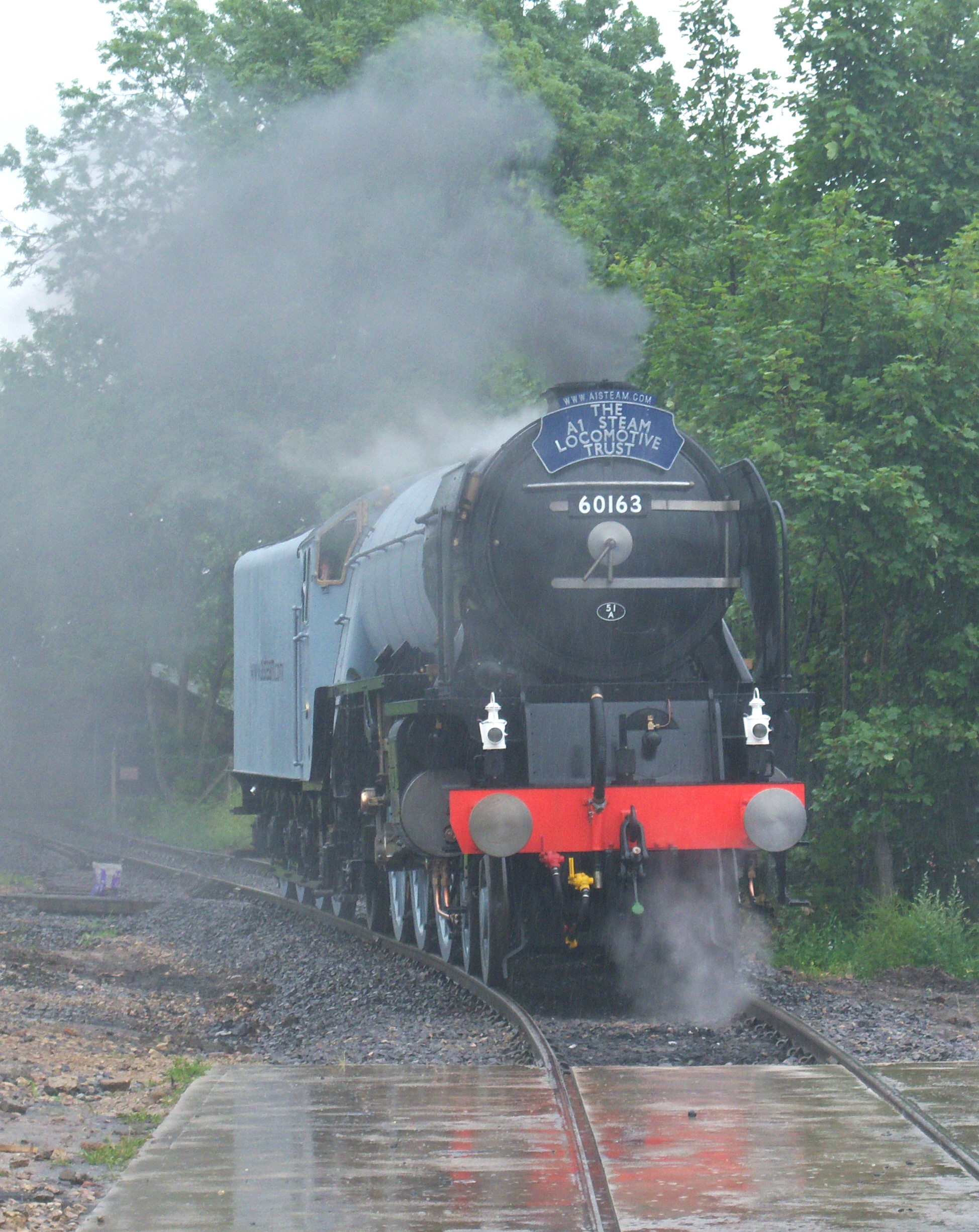 60163 Tornado in steam